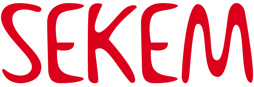 Actual Logo of SEKEM